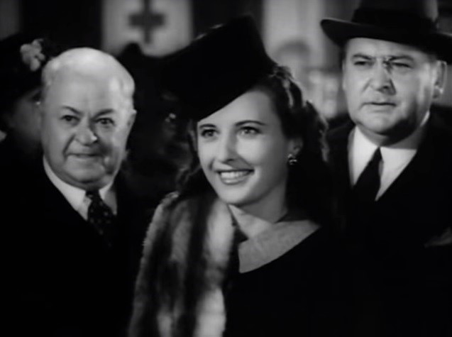 L. to R. : Harry Holman, Barbara Stanwyck & Edward Arnold in Meet John Doe - cropped screenshot